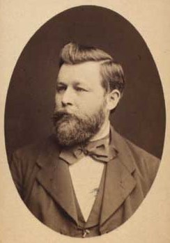 Erik Nicolai Ritzau (1839-1903), Danish journalist and army officer